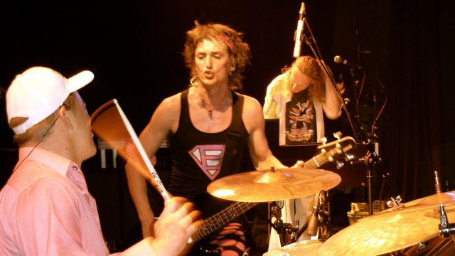 Boo! playing live with new drummer Riaan van Rensburg